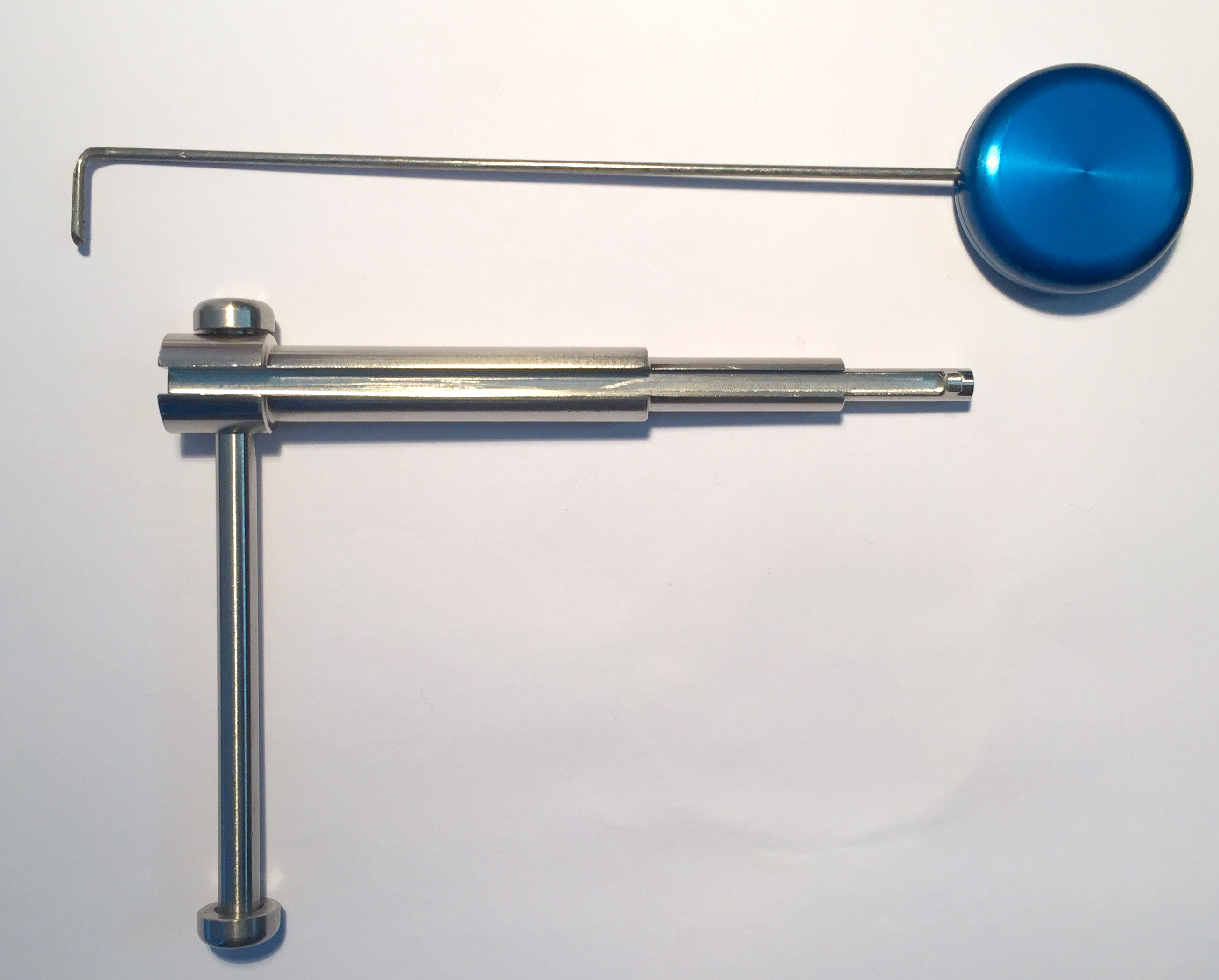 A tool used to pick lever tumbler locks, sometimes called a curtain pick.